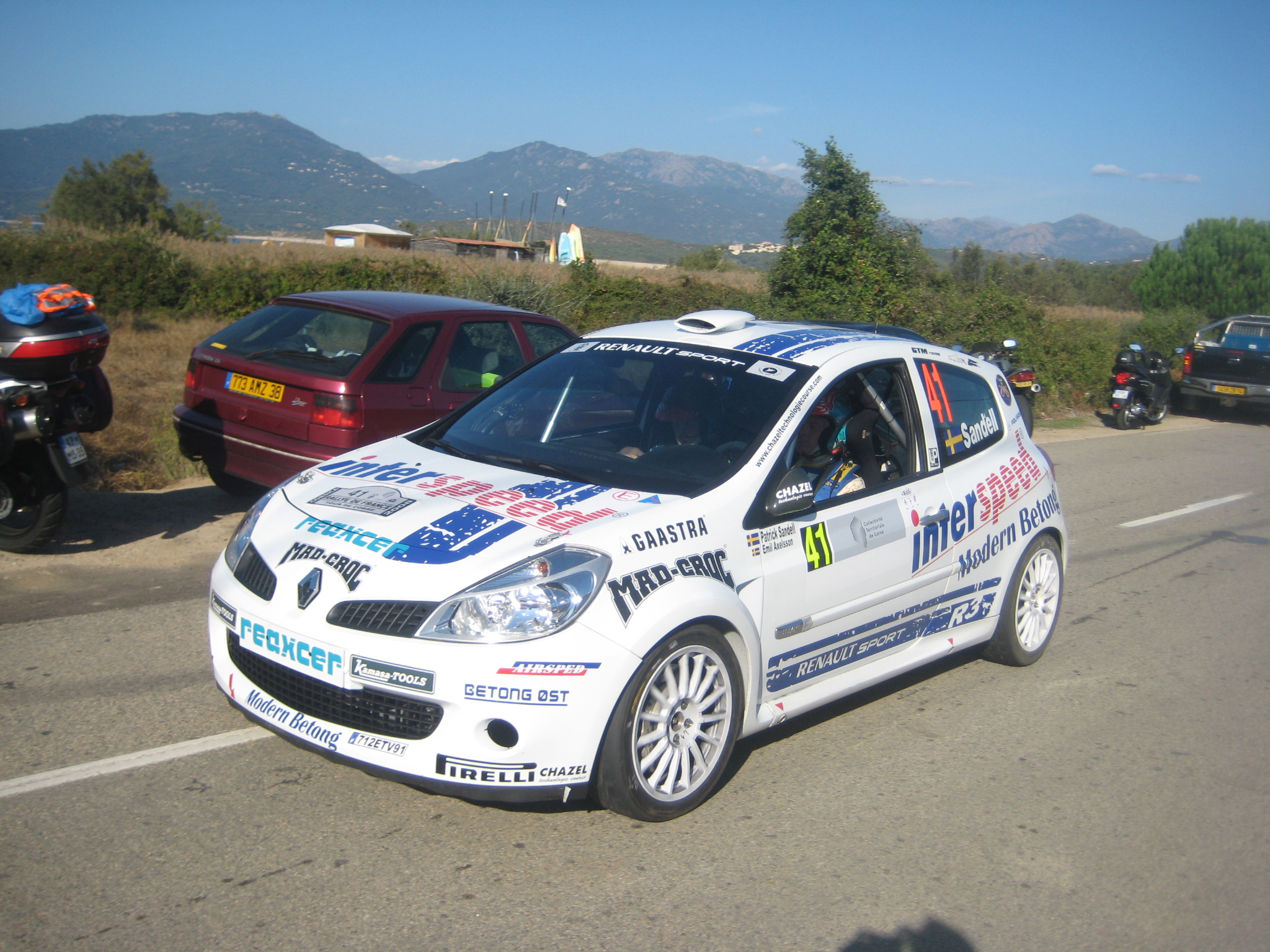 2008 Rallye de France, Day 1, Patrik Sandell - Renault Clio R3